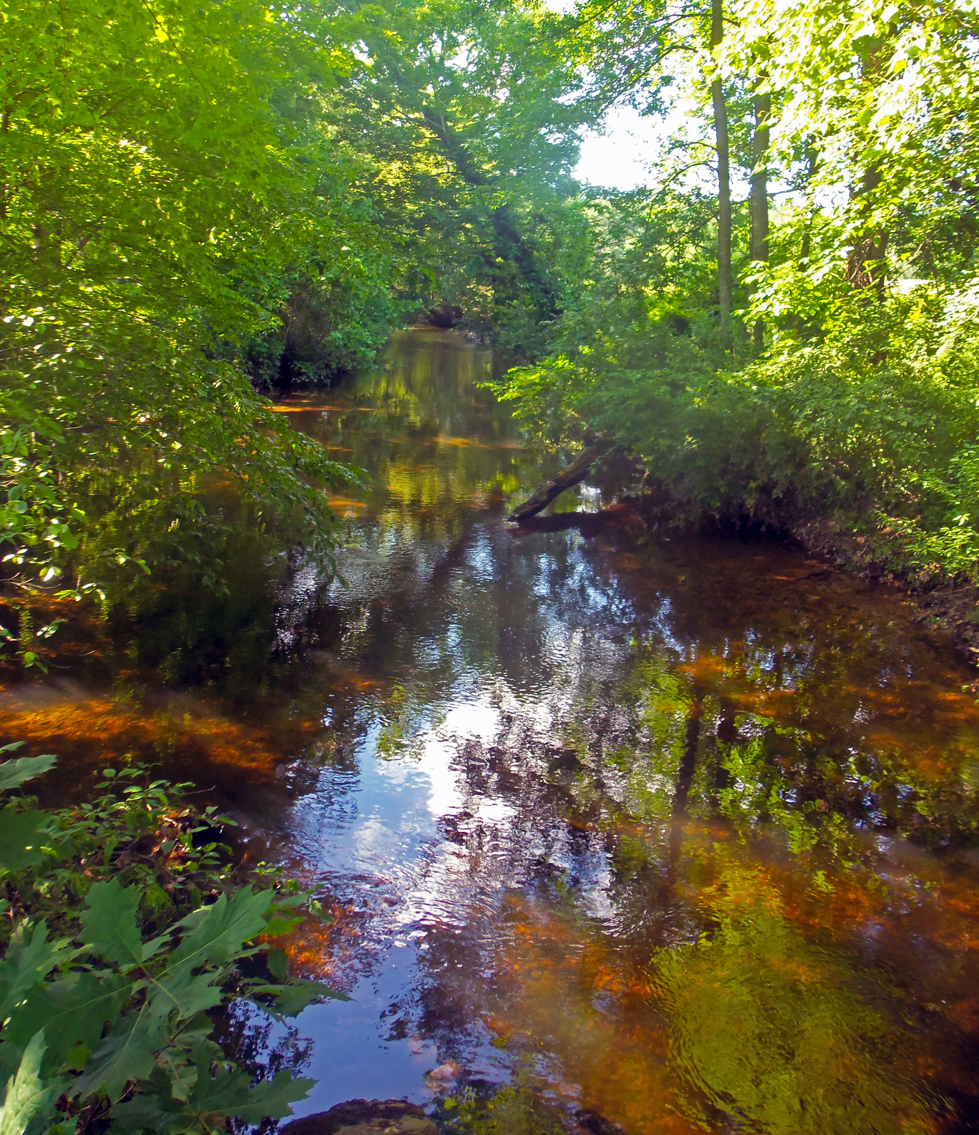 Verkeerder Kill at Verkeerder Kill Park near the hamlet of Walker Valley in the the Town of Shawangunk, NY, USA